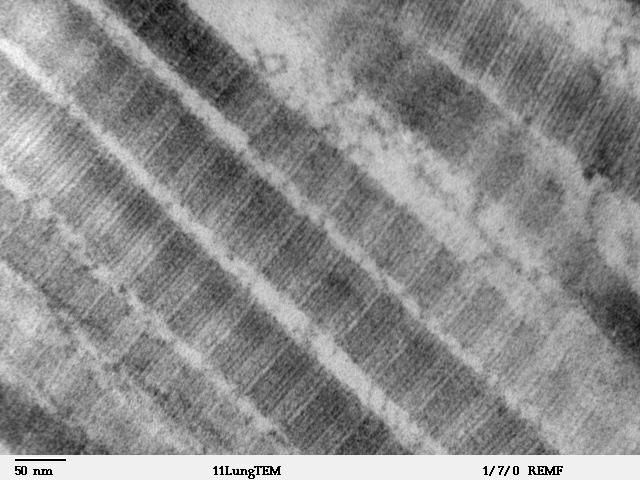 Transmission electron microscope image of a thin section cut through an area of mammalian lung tissue. The high magnification image of connective tissue area shows fibers of Collagen Type I. JEOL 100CX TEM